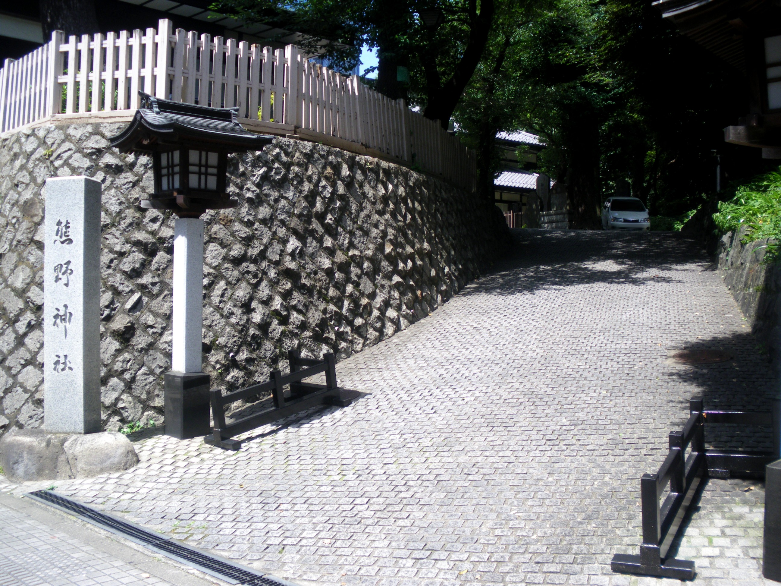 A photo of an entrance of Shinjuku Juniso Kumano Jinja(shrine),Nishishinjuku,Shinjuku-ku,Tokyo,Japan.